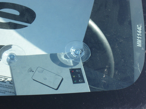 U Car Share access terminal on dash of vehicle. Members reserve a car online, and use their membership card to gain access to the vehicle. Cards are just placed in front of the terminal on the windshield, and then the doors are unlocked.